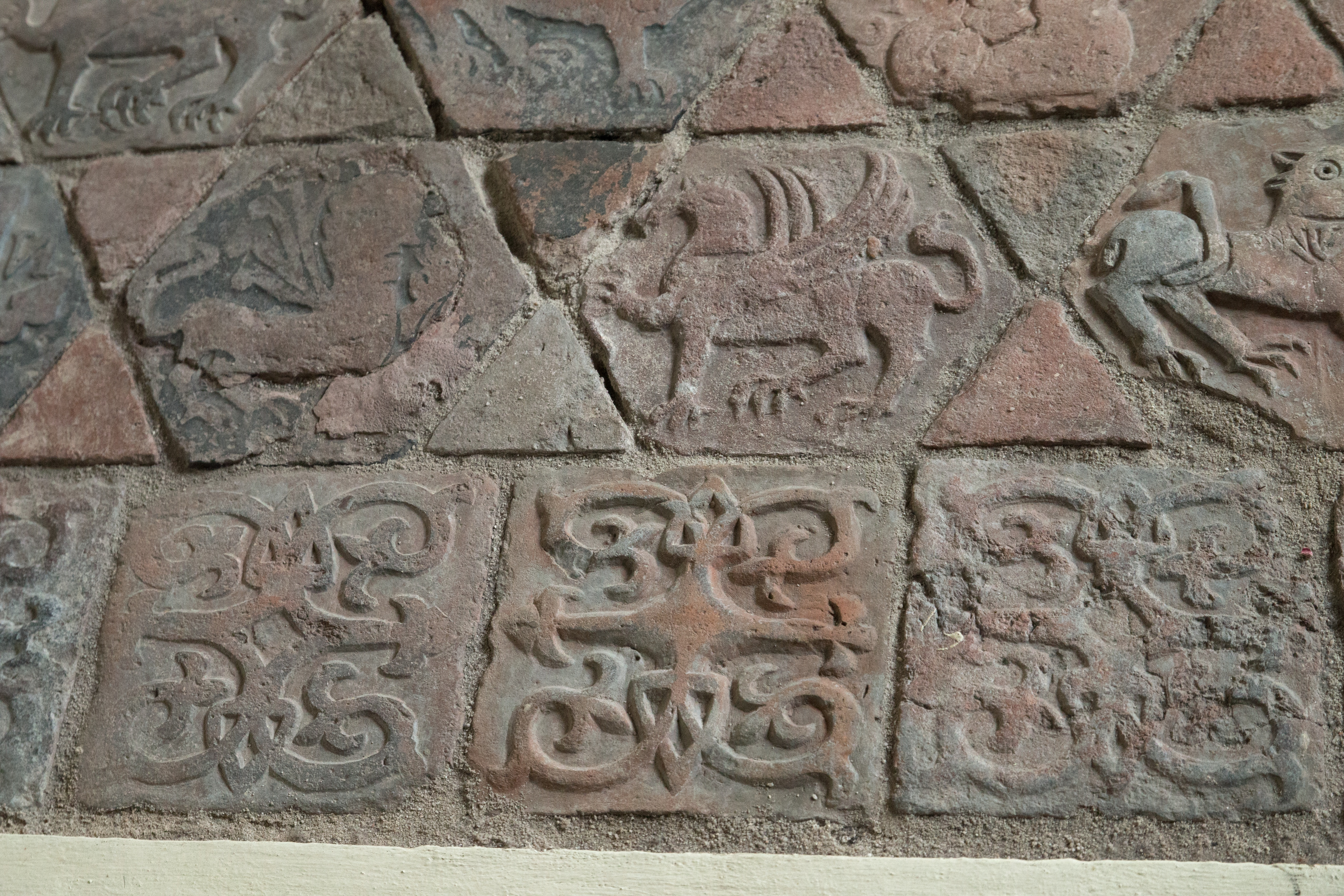 Tiles from the Church of St. Laurel (sv. Vavřinec) at Vyšehrad, the end of the 11th century and 1125-1150 AD, burnt clay. Lapidary of the National Museum in Prague, cat. no. 9.